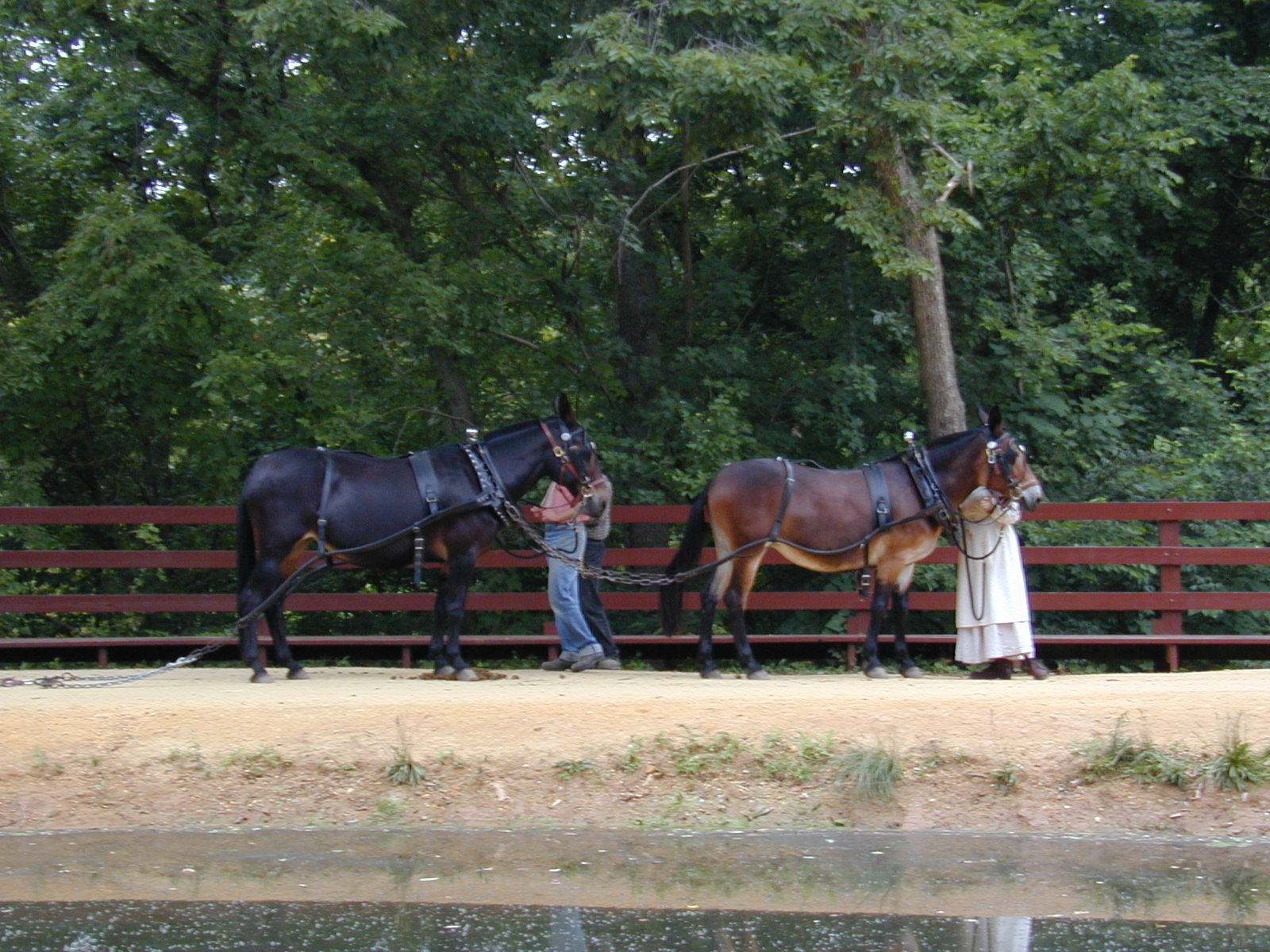 Mules at the C & O Canal near Great Falls Photo by Jan Kronsell, 2002